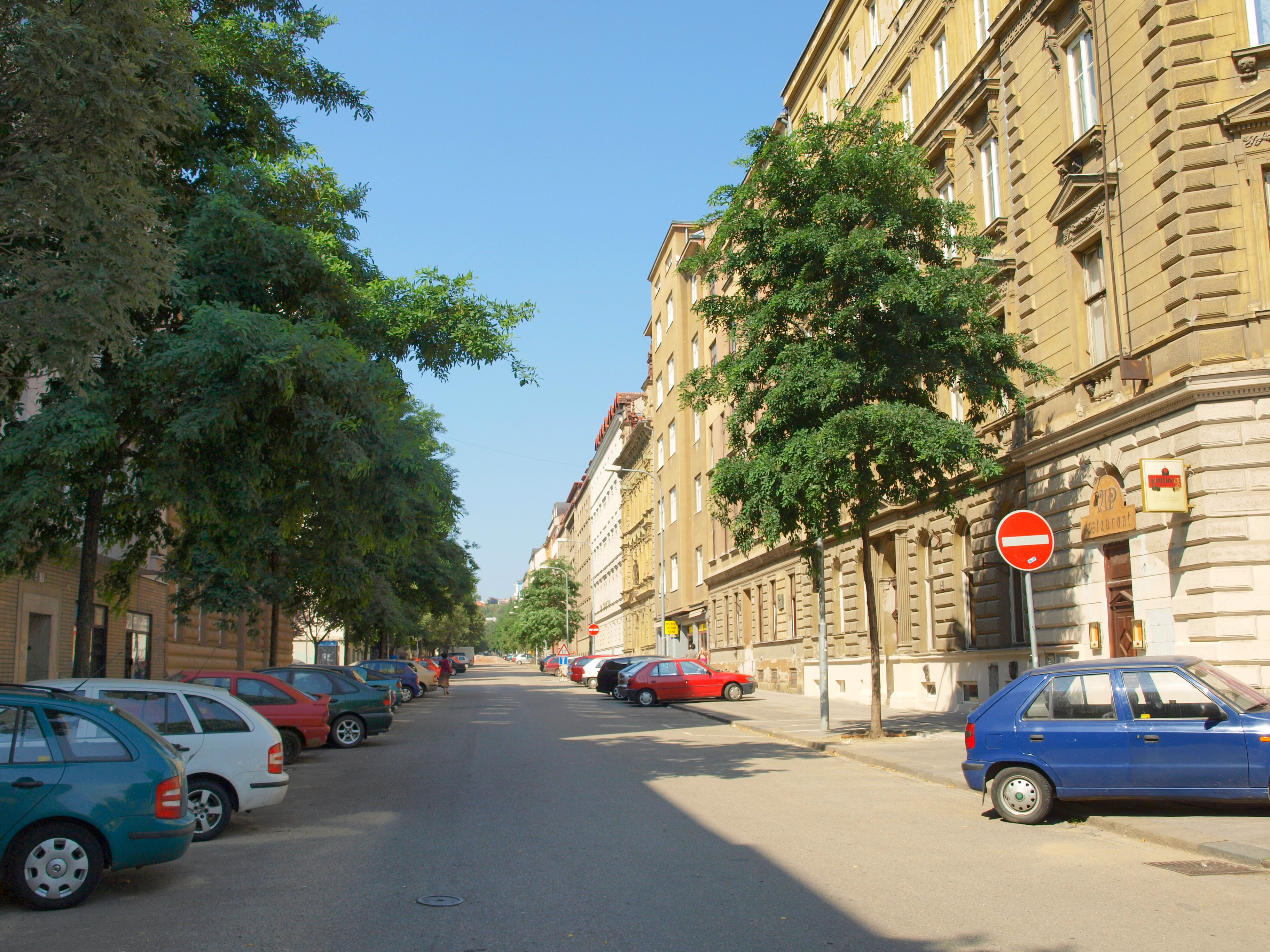 Grohova street, Veveří, Brno